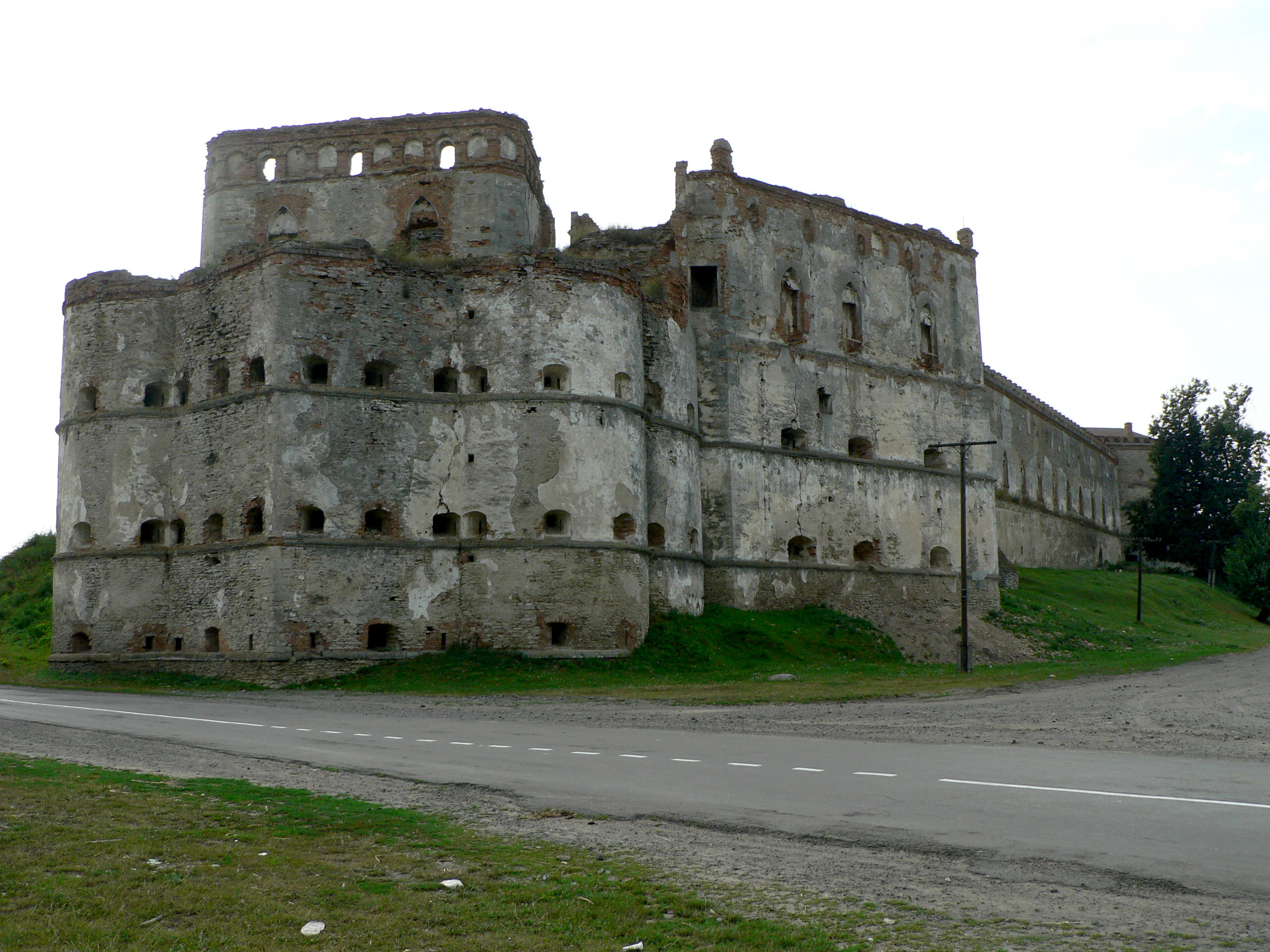 Ukraine. Castle of Medzhibozh.